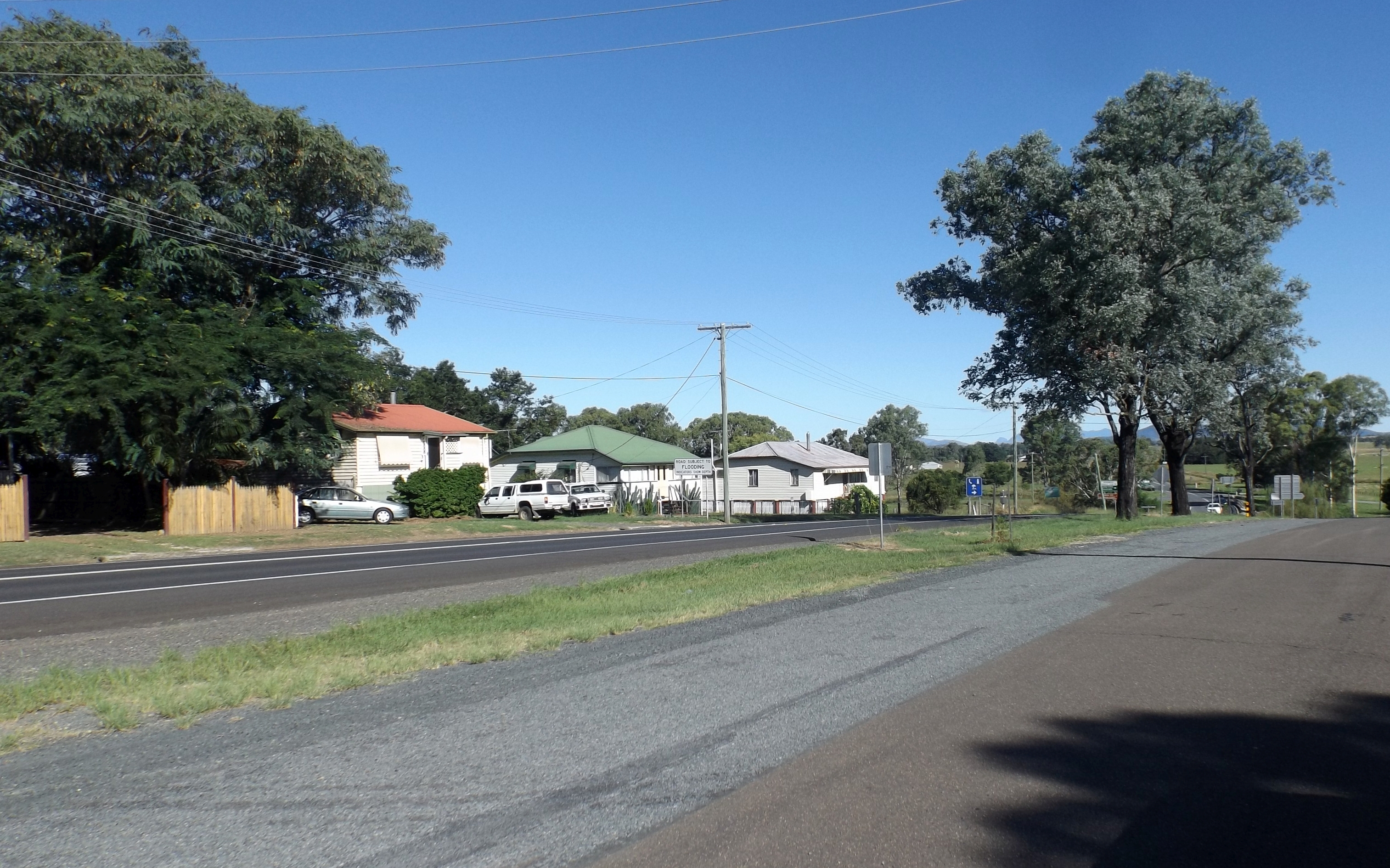 Photo of Cunningham Highway at Warrill View, Scenic Rim, Queensland, Australia.